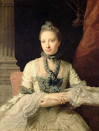 Susan Fox-Strangways was daughter of Stephen Fox-Strangways, 1st Earl of Ilchester and Elizabeth Horner